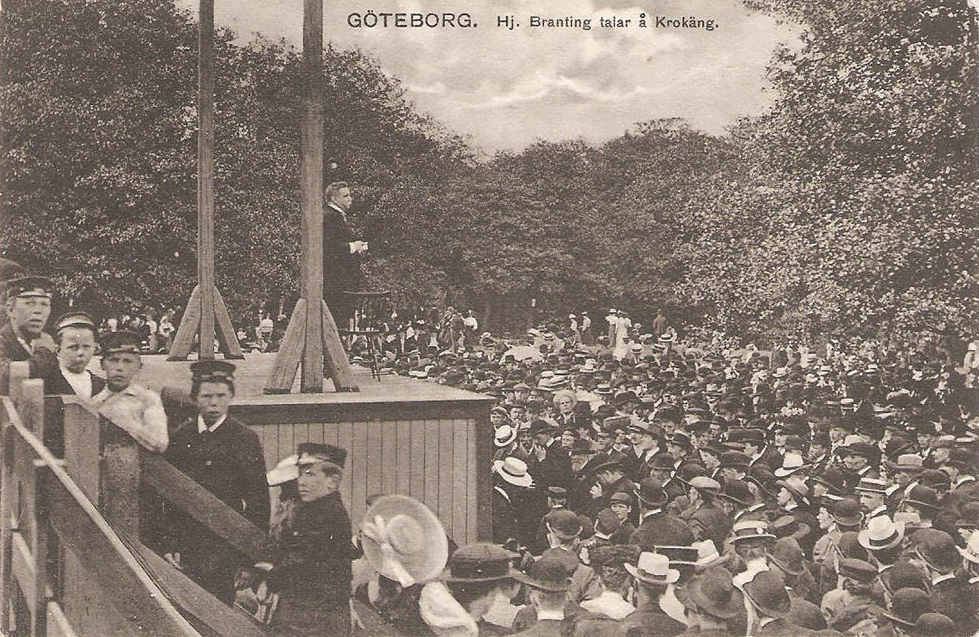 Swedish labour leader Hjalmar Branting adresses a crowd in Gothenburg 1912